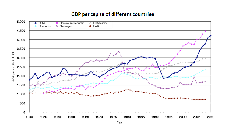 GDP per Capita in US$ (1945-2010) of different countries, based on Maddison and current Cuban statistics